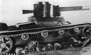 Twin-turreted T-26 tank with 76-mm recoilless gun developed by L. Kurchevsky